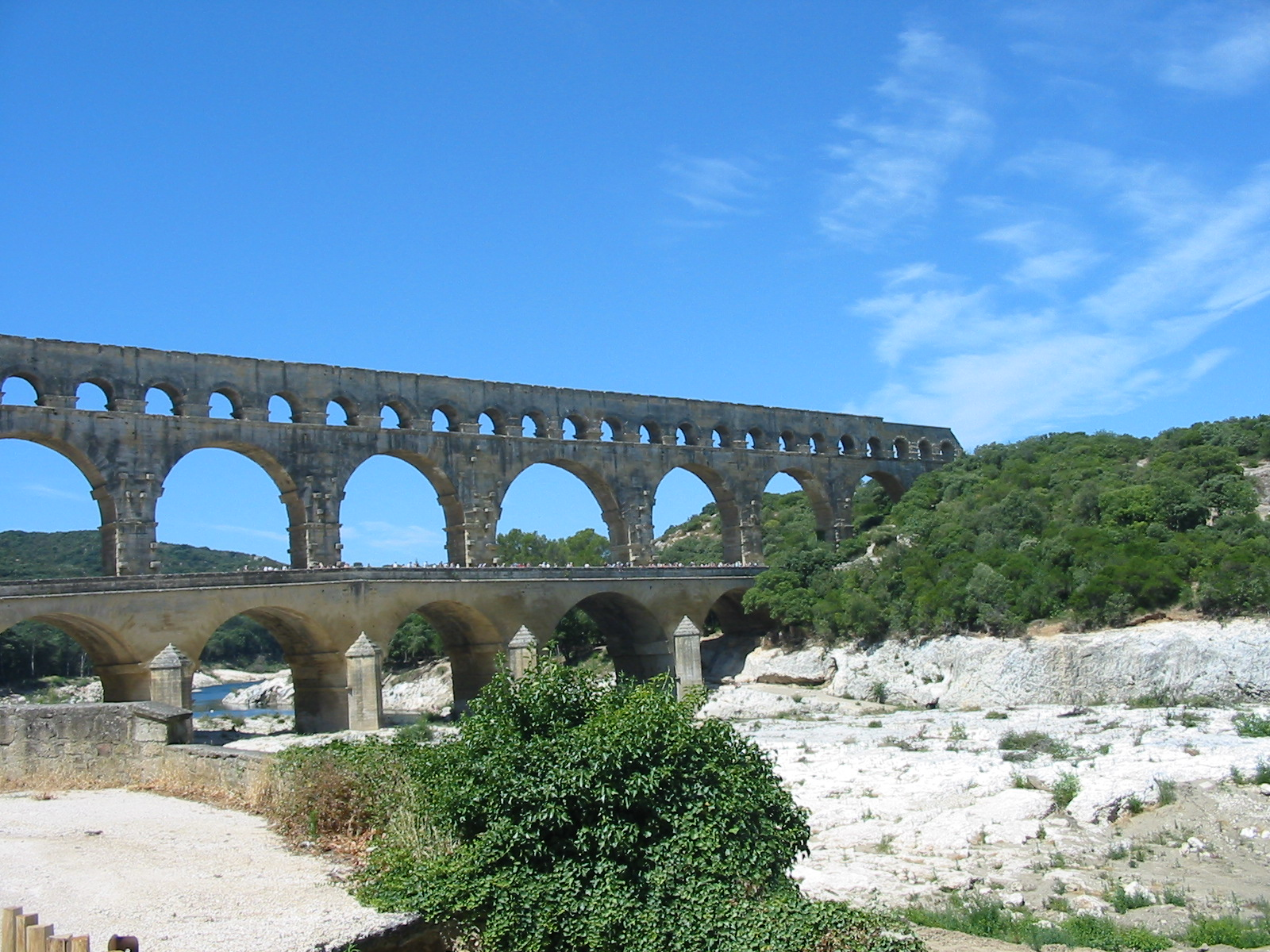 Pont du Gard